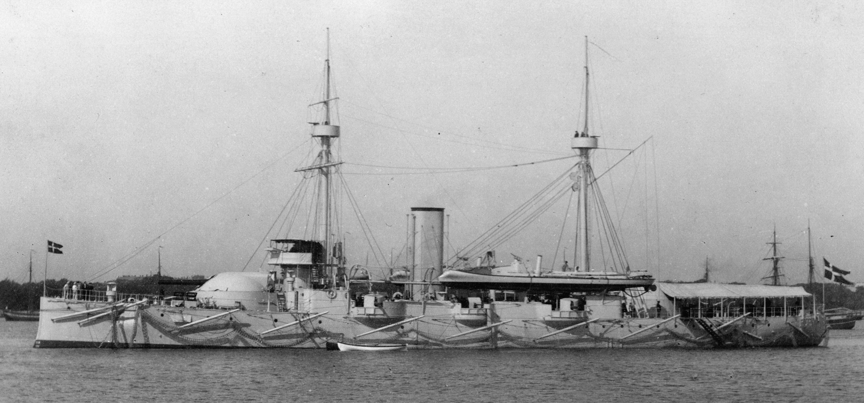 The Danish coast defence ship Iver Hvitfeldt. The ship was part of the 1890 squadron, where it carried the two torpedo boats Nr. 8 and Nr. 9.